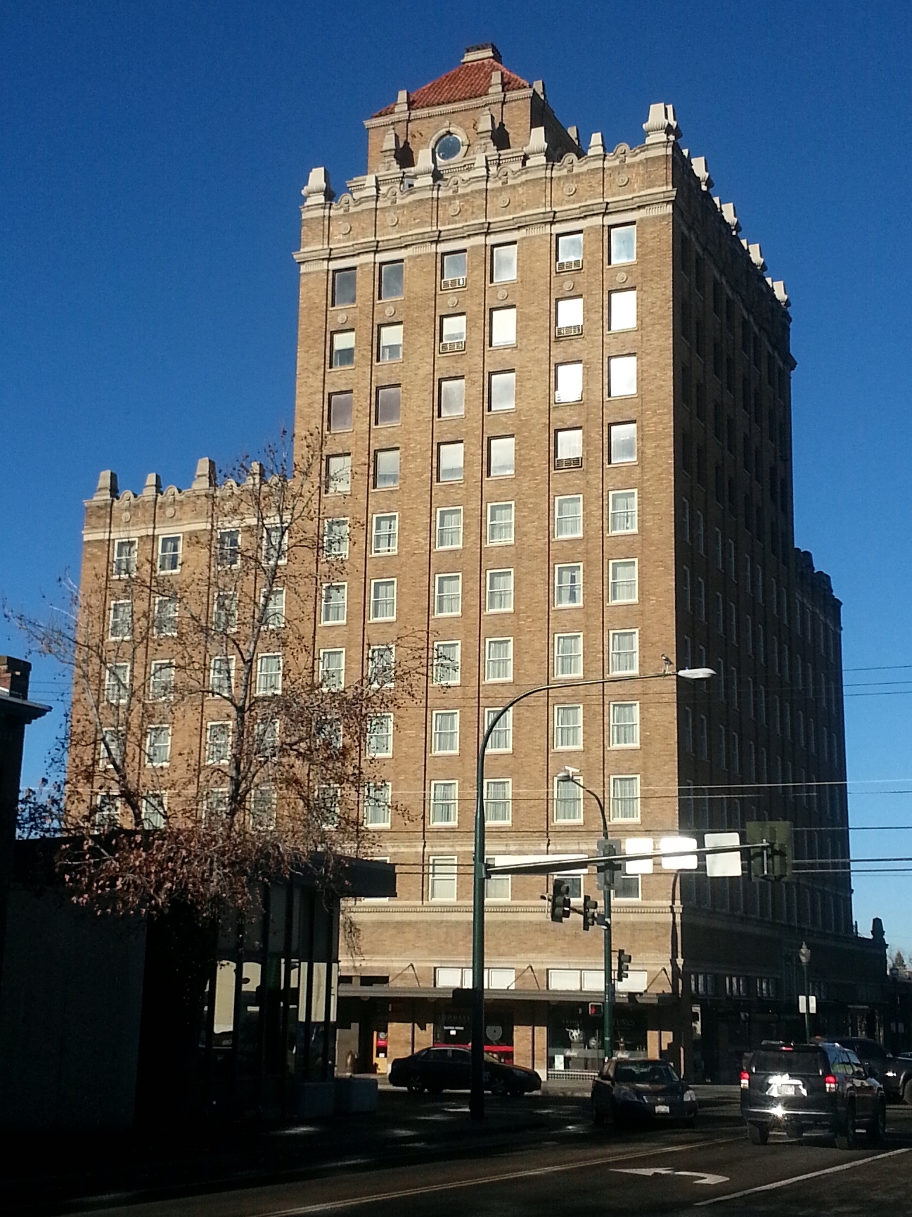 Picture of the Whitman Hotel in downtown Walla Walla, WA.